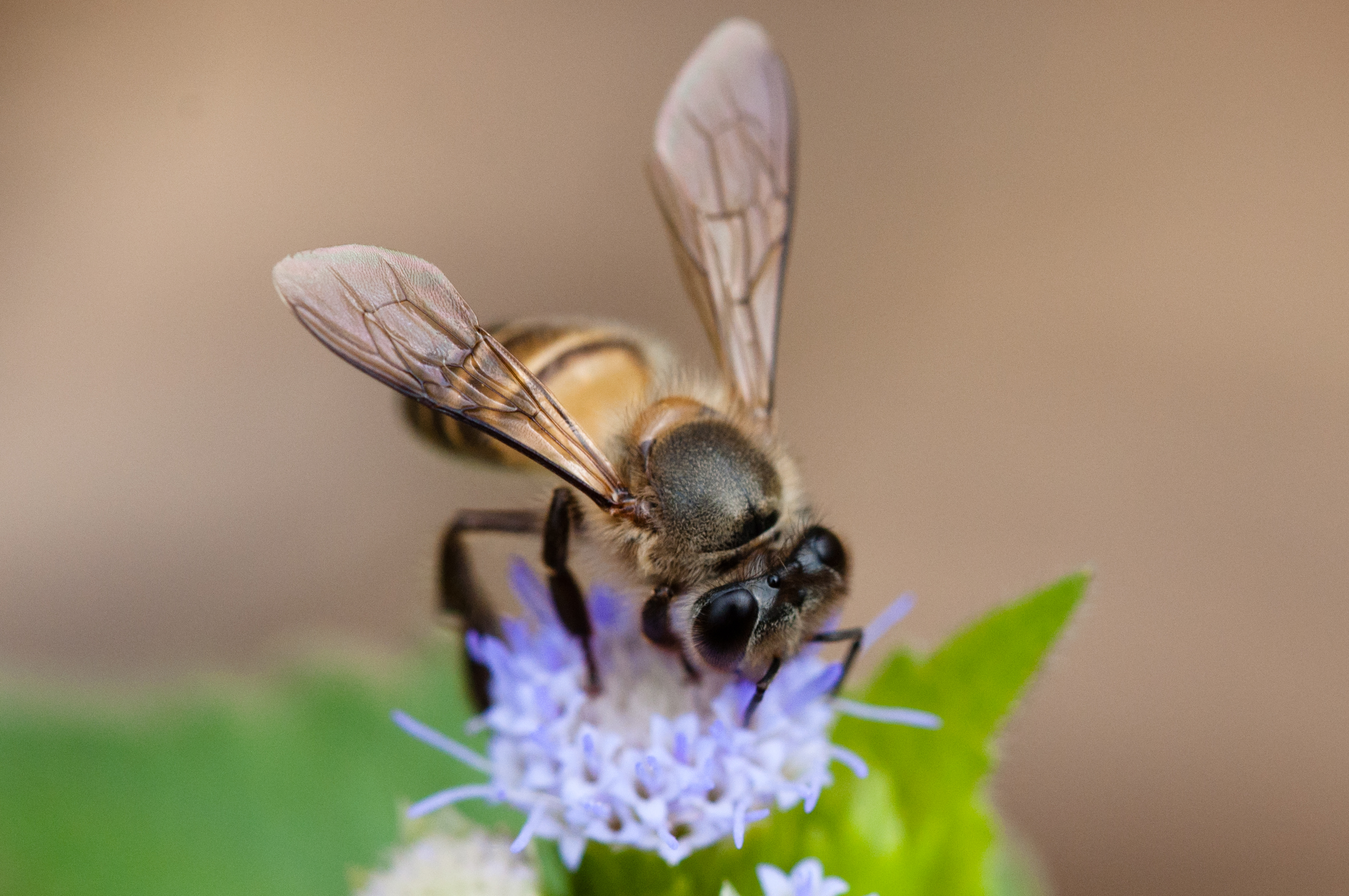 Apis cerana, Asiatic honey bee - Khao Yai National Park, Thailand